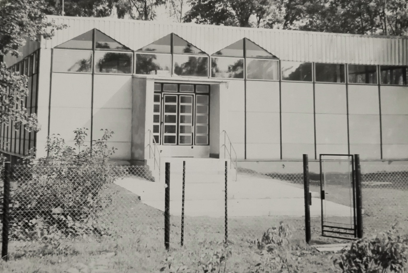 Lutheran church in Karviná-Doly